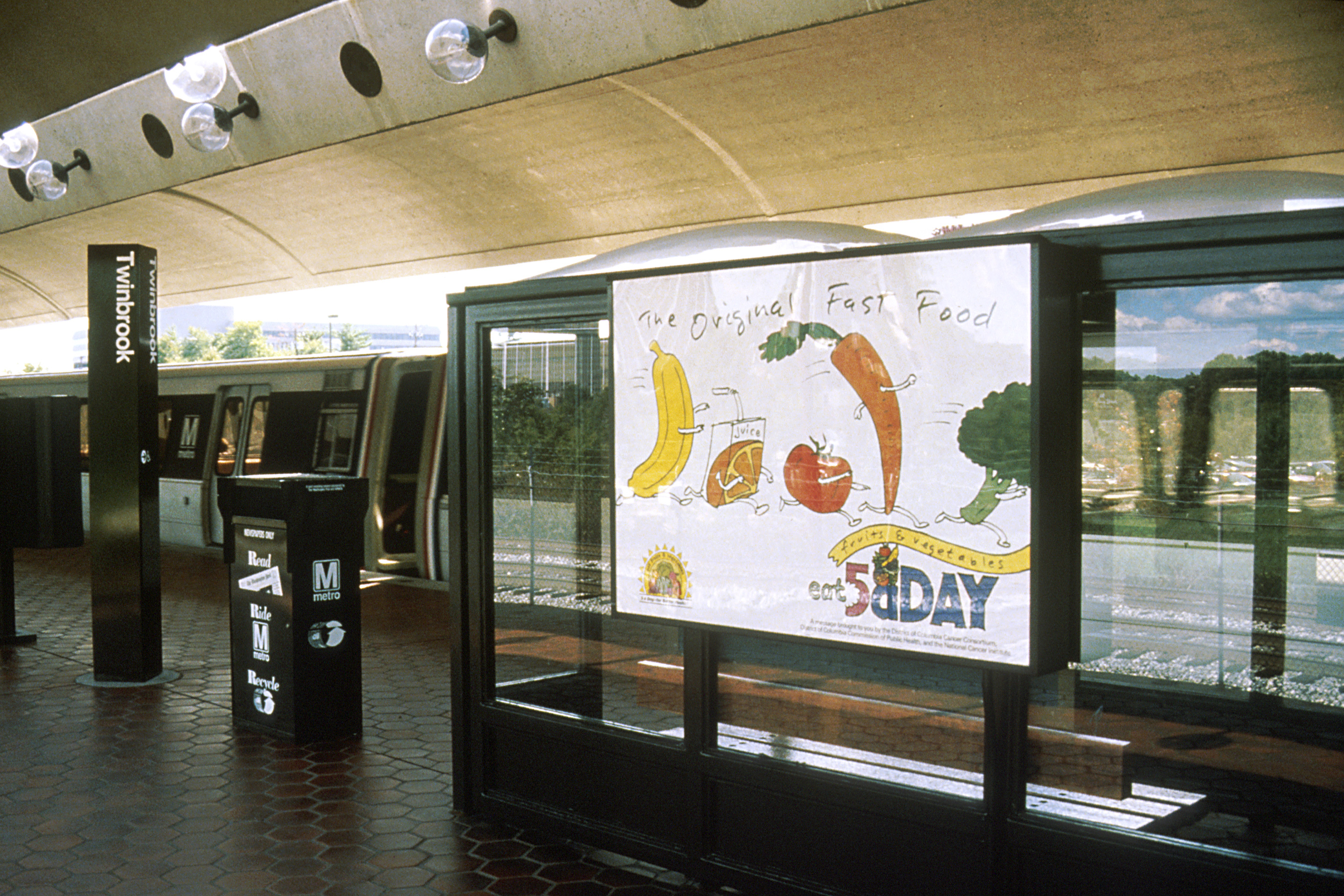 Title 5 A Day Advertisement at the NIH Metro Description The 5 A Day advertisement "The Original Fast Food" that appeared in Washington D.C.'s Metrorail stations during September 1993. The ad has running figurines in the shapes of a banana, an orange juice box, a tomato, carrot and broccoli. Topics/Categories Historical, Graphics Type Color, Photo Source National Cancer Institute